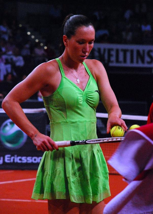 Jelena Janković in Action at the 2010 Stuttgart Porsche Cup